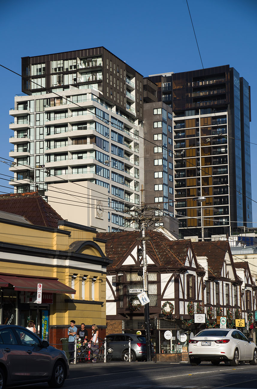 South Yarra